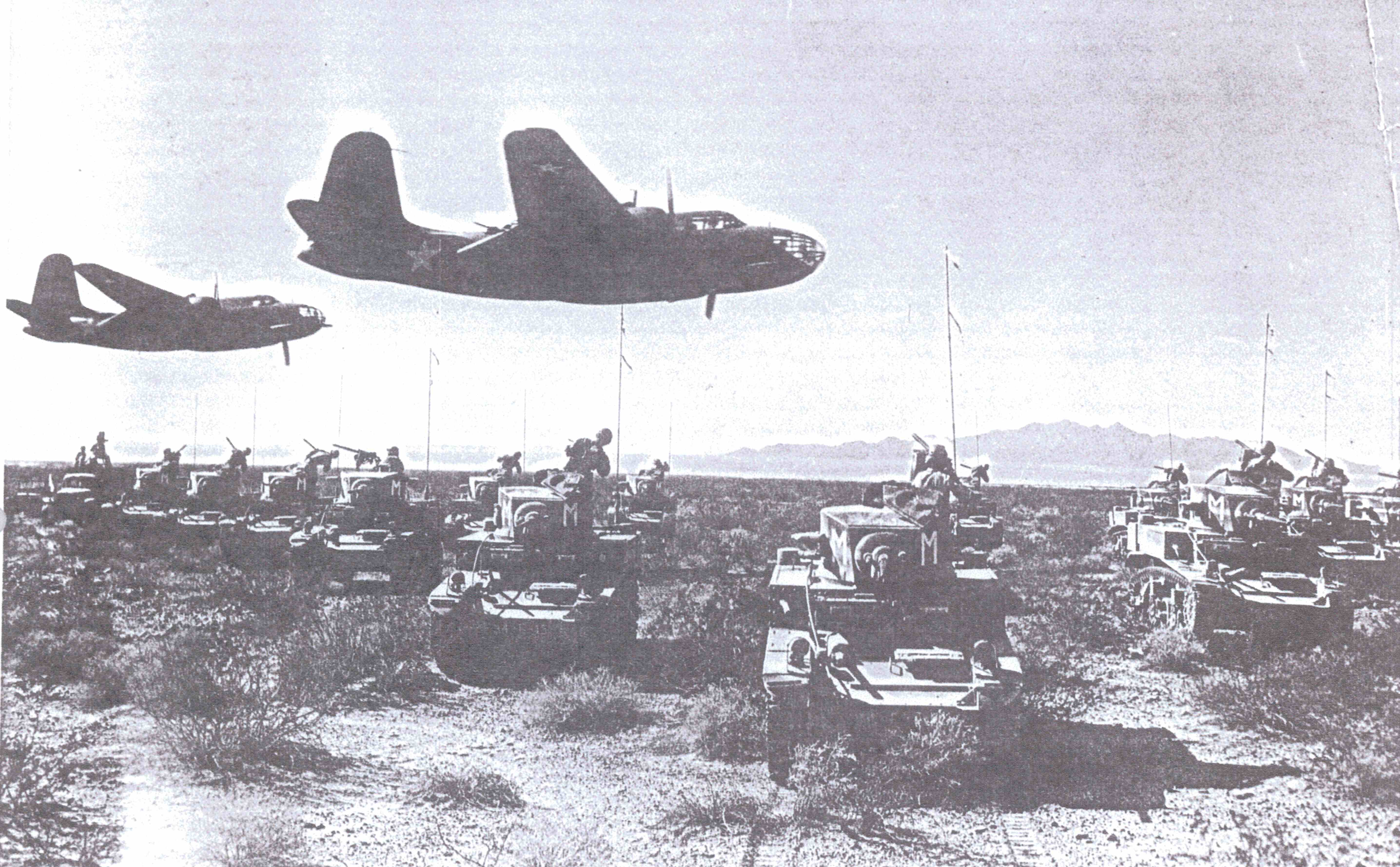 On February 12, 2016, President Obama signed a proclamation declaring the Mojave Trails National Monument east of Los Angeles in Southern California. Mojave Trails National Monument: Spanning 1.6 million acres, more than 350,000 acres of previously congressionally-designated Wilderness, the Mojave Trails National Monument is comprised of a stunning mosaic of rugged mountain ranges, ancient lava flows, and spectacular sand dunes. The monument will protect irreplaceable historic resources including ancient Native American trading routes, World War II-era training camps, and the longest remaining undeveloped stretch of Route 66. Additionally, the area has been a focus of study and research for decades, including geological research and ecological studies on the effects of climate change and land management practices on ecological communities and wildlife.